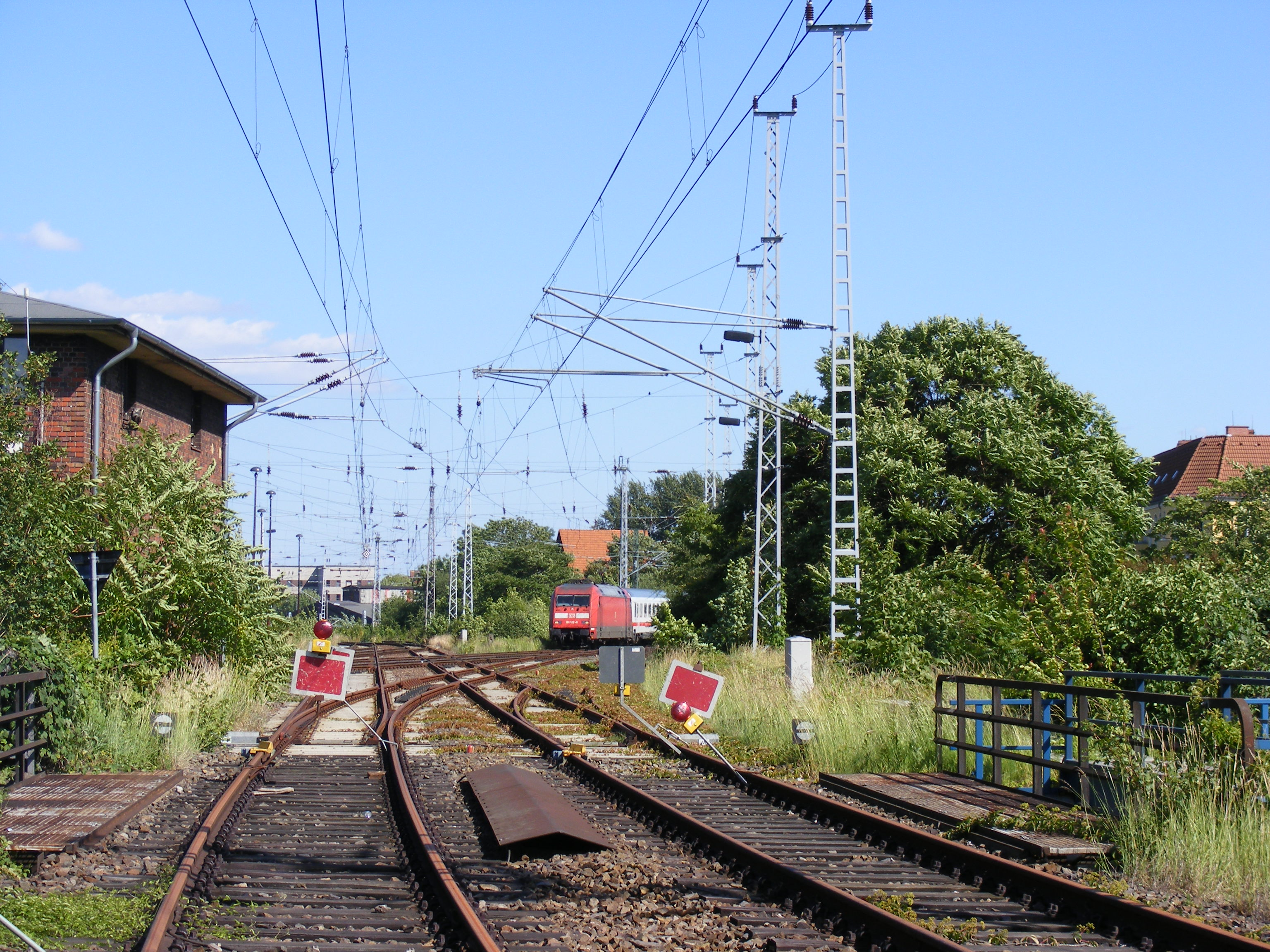 Junction "Abzweig Gabelung" close to Berlin Lichtenberg Railway Station.